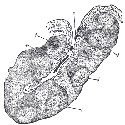 Section through one of the crypts of the tonsil. (Stöhr.) Magnified. e. Stratified epithelium of general surface, continued into crypt. f, f. Nodules of lymphoid tissue—opposite each nodule numbers of lymph cells are passing into or through the epithelium. s, s. Cells which have thus escaped to mix with the saliva as salivary corpuscles.